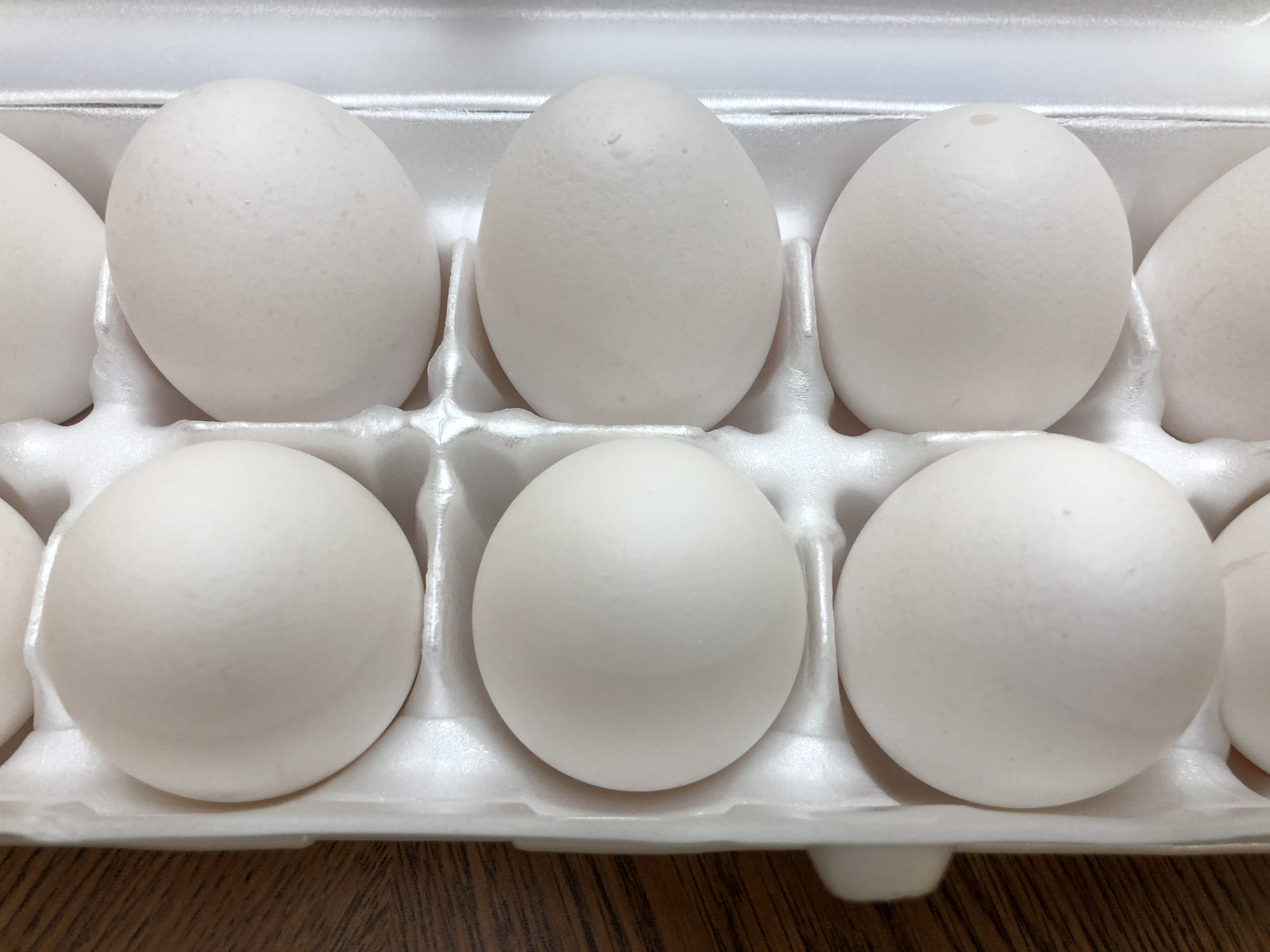 Six eggs in an open carton of a dozen Large Grade A Chicken Eggs from Egg-land's Best in the Franklin Farm section of Oak Hill, Fairfax County, Virginia